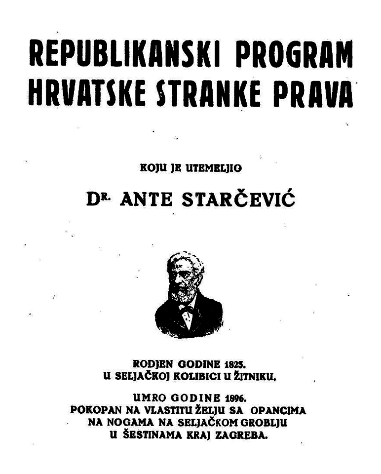 Republikanski program Hrvatske stranke prava, donesen 1919.